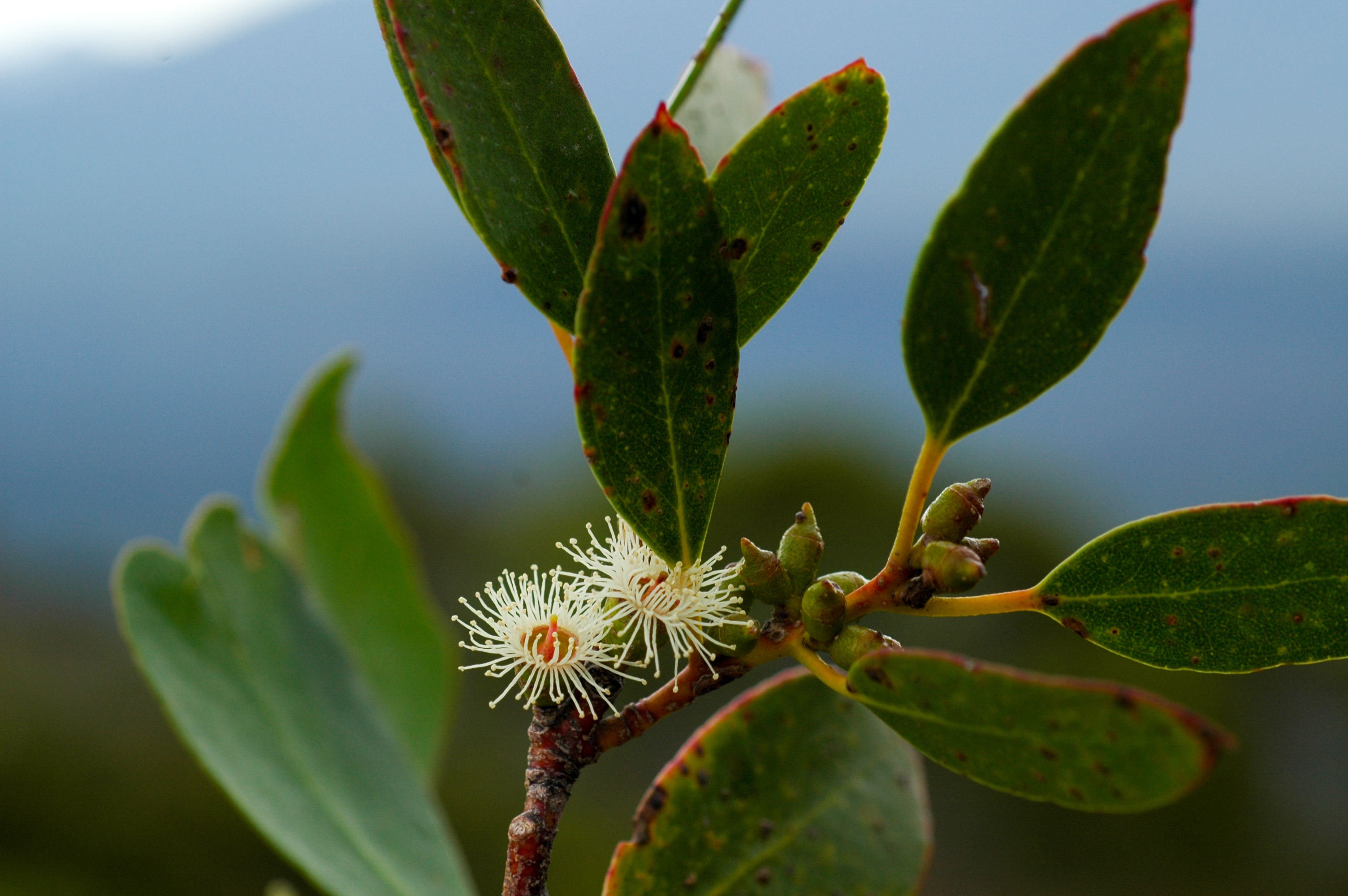 flower